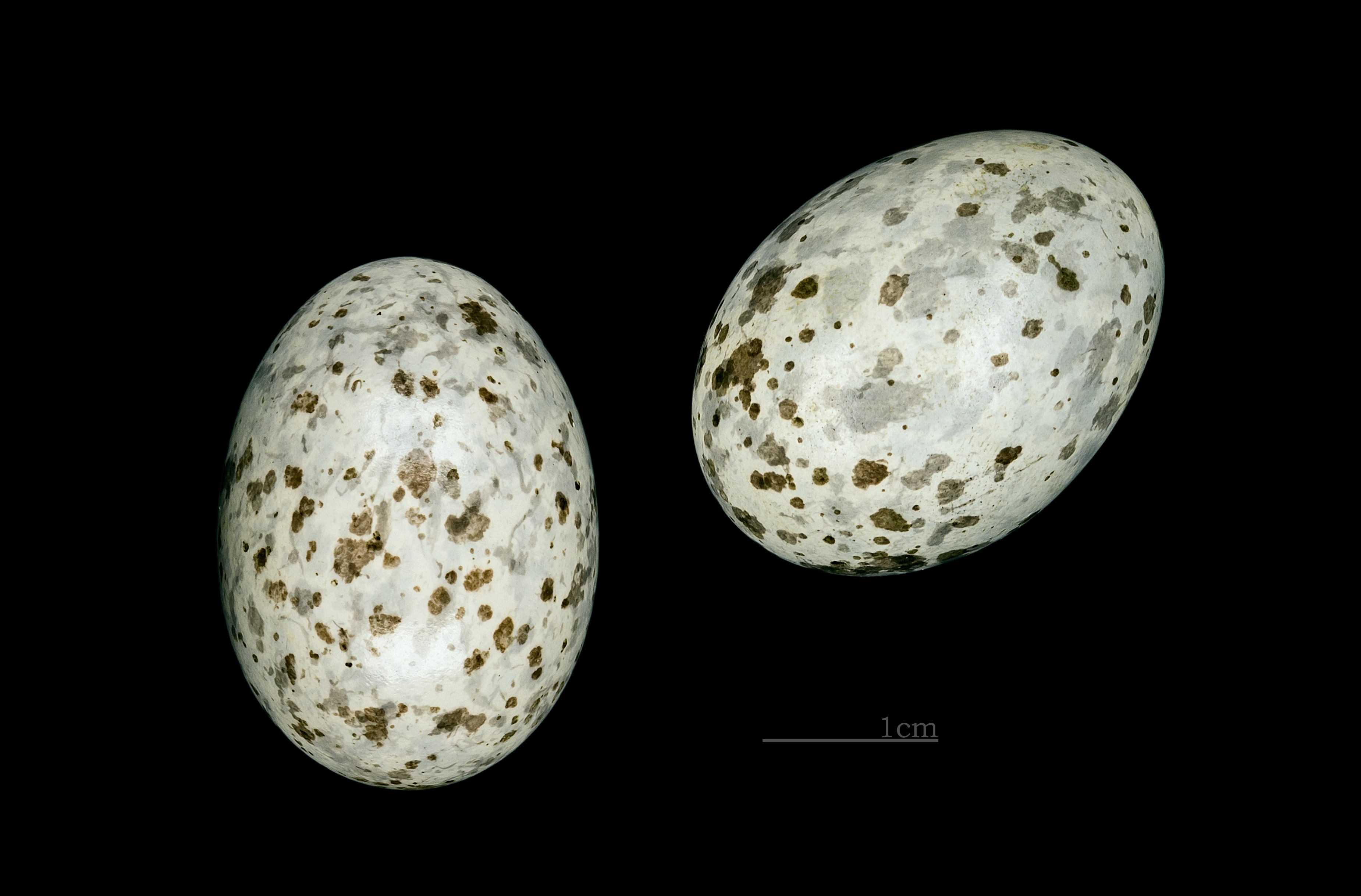 Egg of Red-necked Nightjar. Collection of Henri Heim de Balsac/Jacques Perrin de Brichambaut.